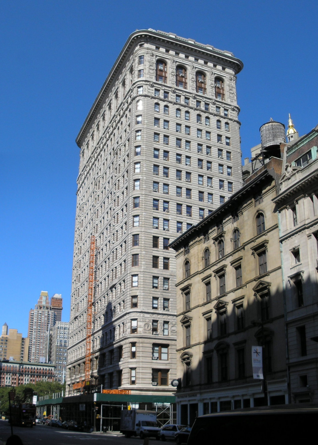 The Flatiron Building from behind, in New York City.